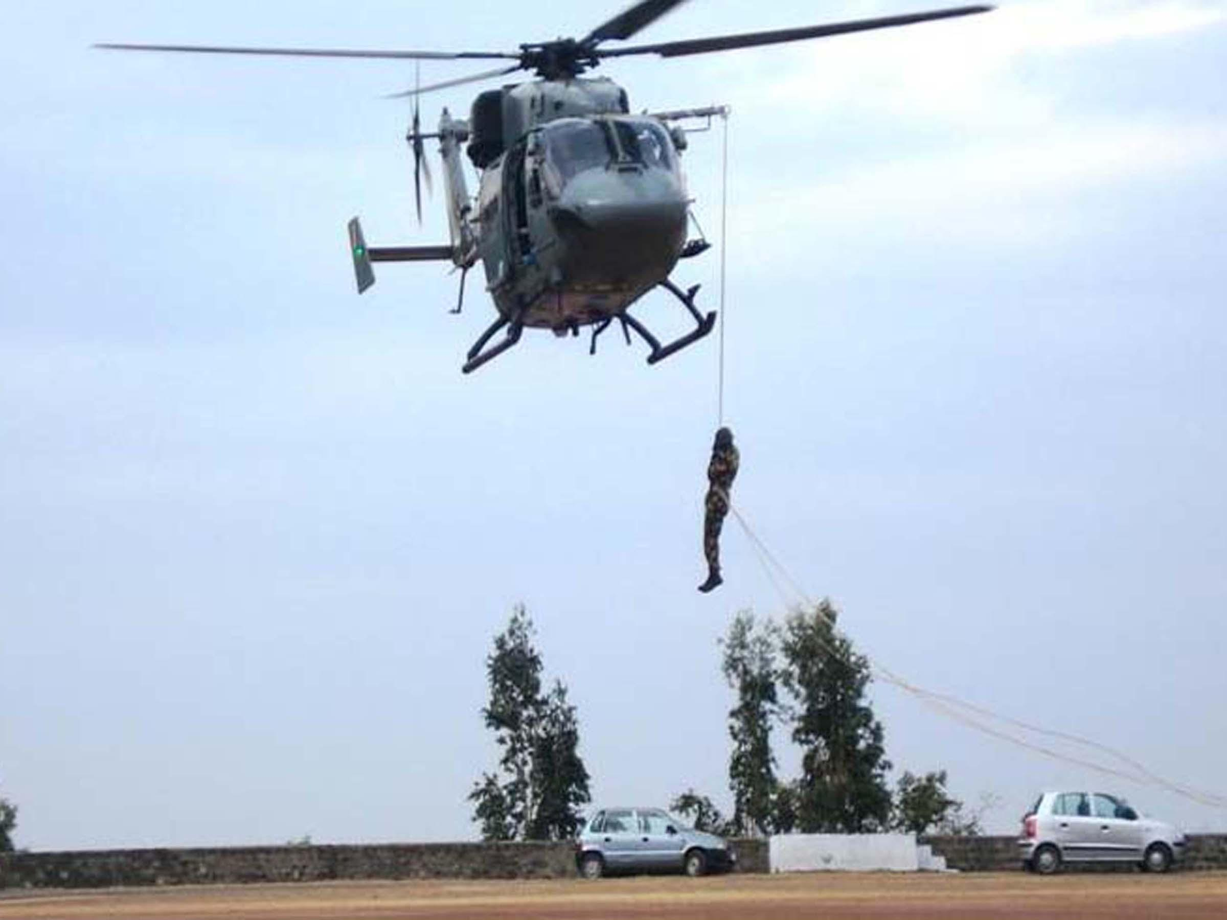 NDRF personnel undergoing Helislithering Training